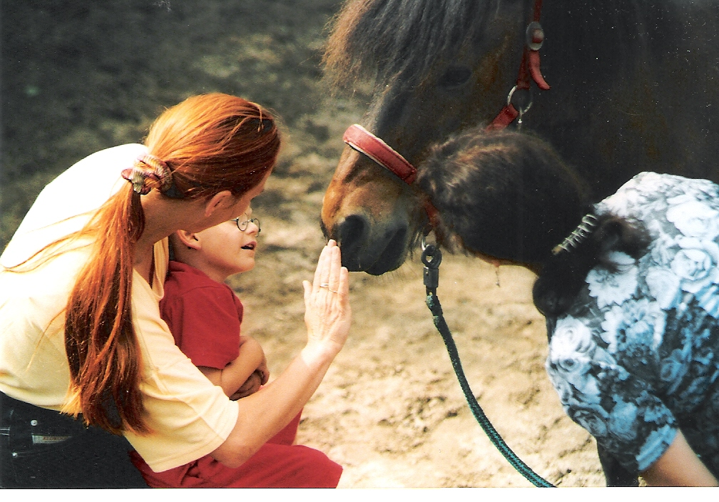 Therapeutic man-horse-interaction by the model TMPI of Hans-Jürgen Bareiss